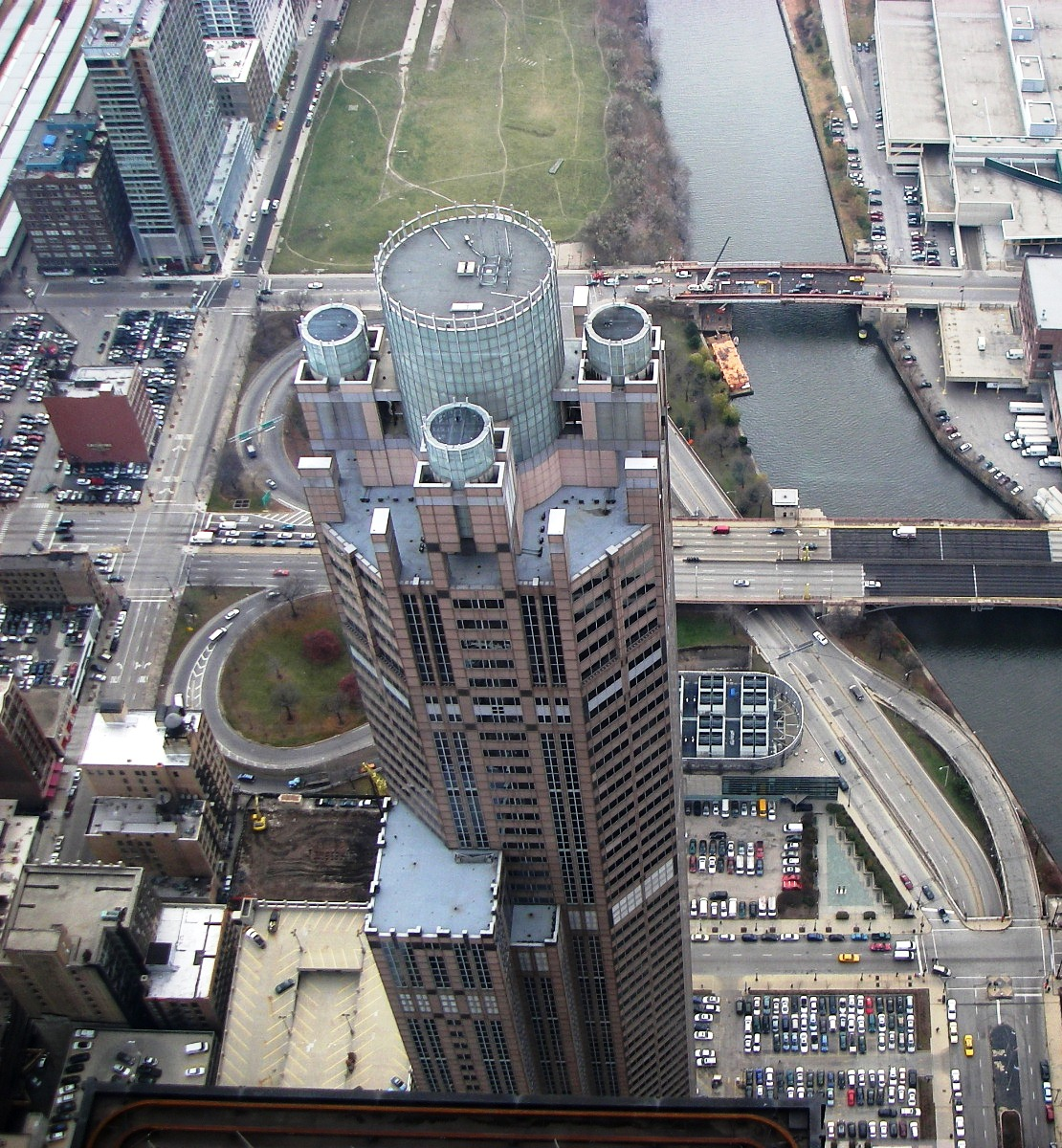 311 South Wacker Drive rooftop (Chicago, IL) from the top floor of the Willis Tower. The two bridges visible at right are the Harrison Street Bridge (above, closed for maintenance work) and the Congress Parkway Bridge (below).